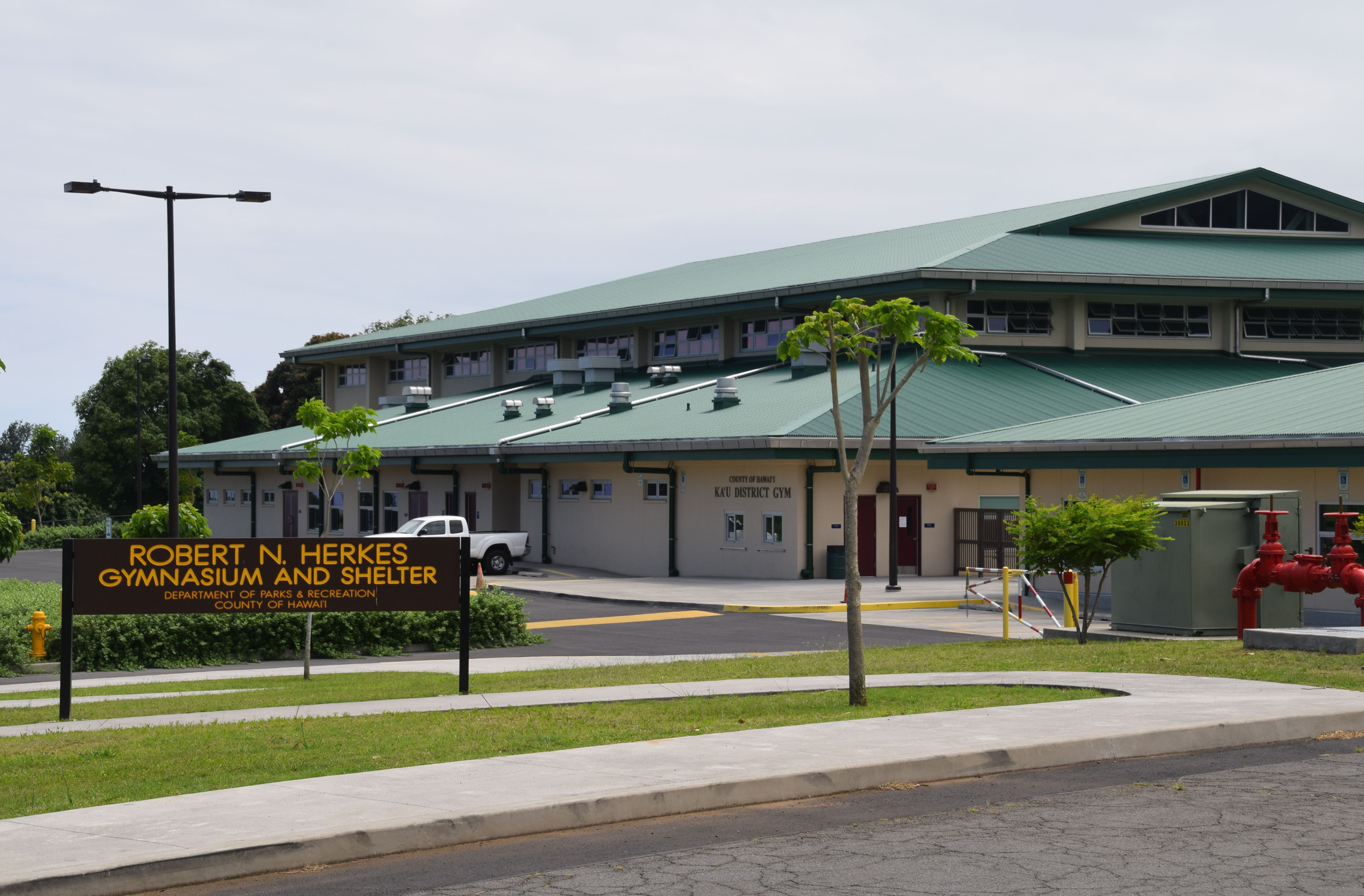 Kau High and Pahala Elementary School's Robert N. Herkes Gymnasium and Shelter, Pahala, Kau District, Hawaii, USA